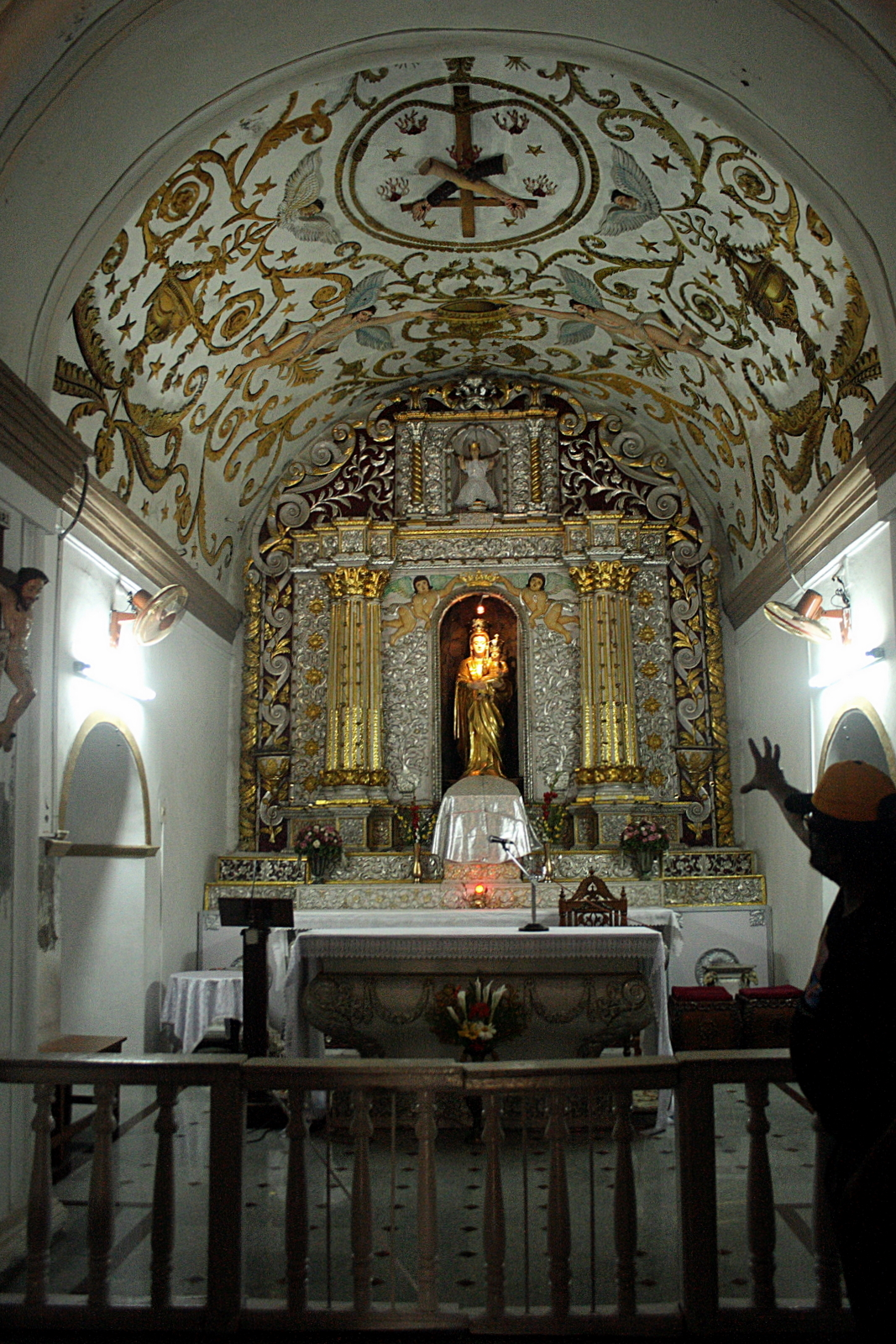 Taken inside the luz church in mylapore.